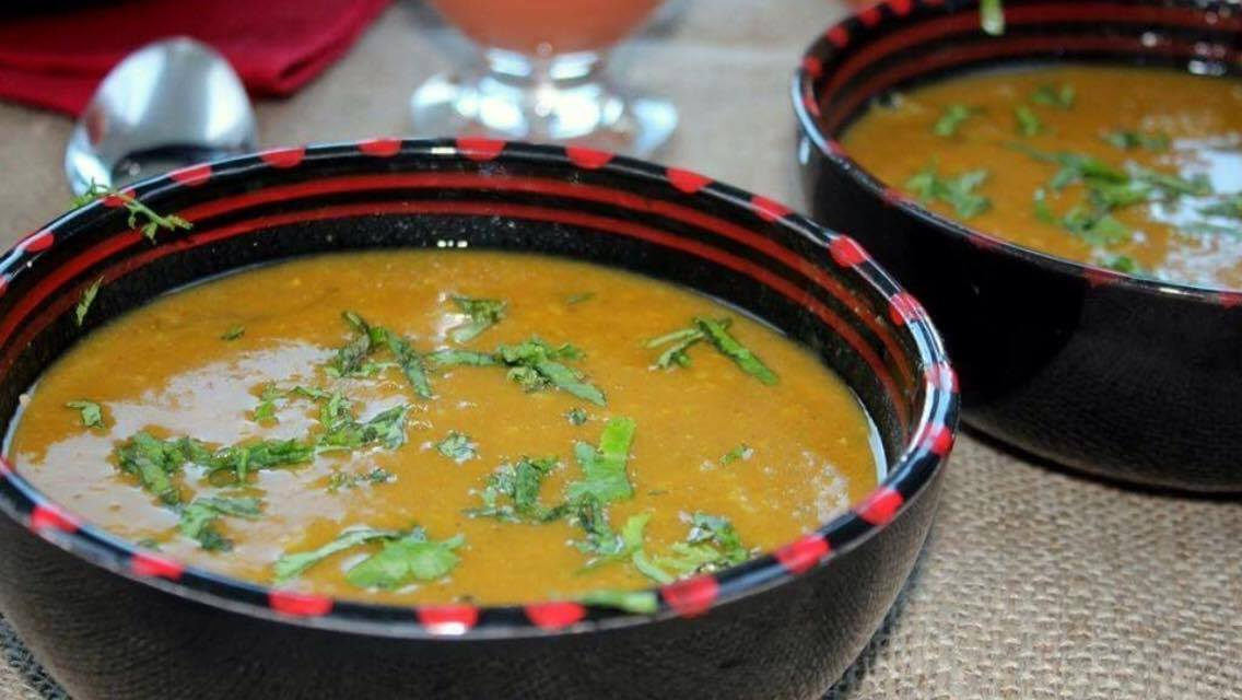 cuisine